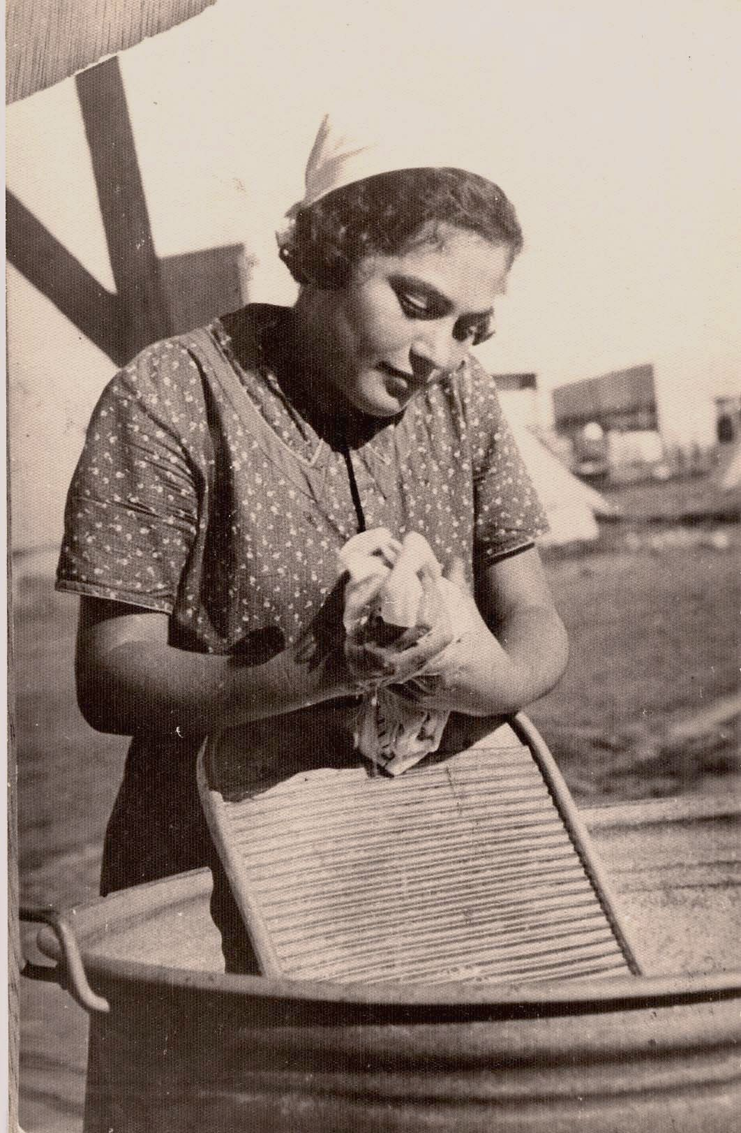 rodges, israel, petach-tikva, Settlements in Israel